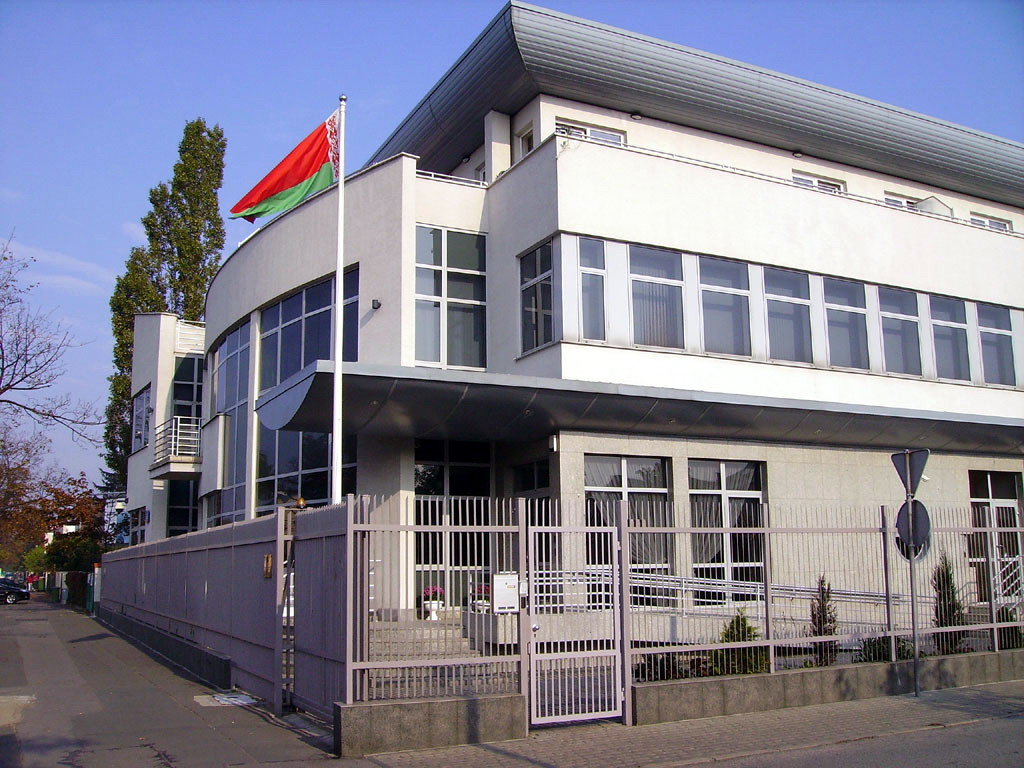 The belarusian embassy in Warsaw